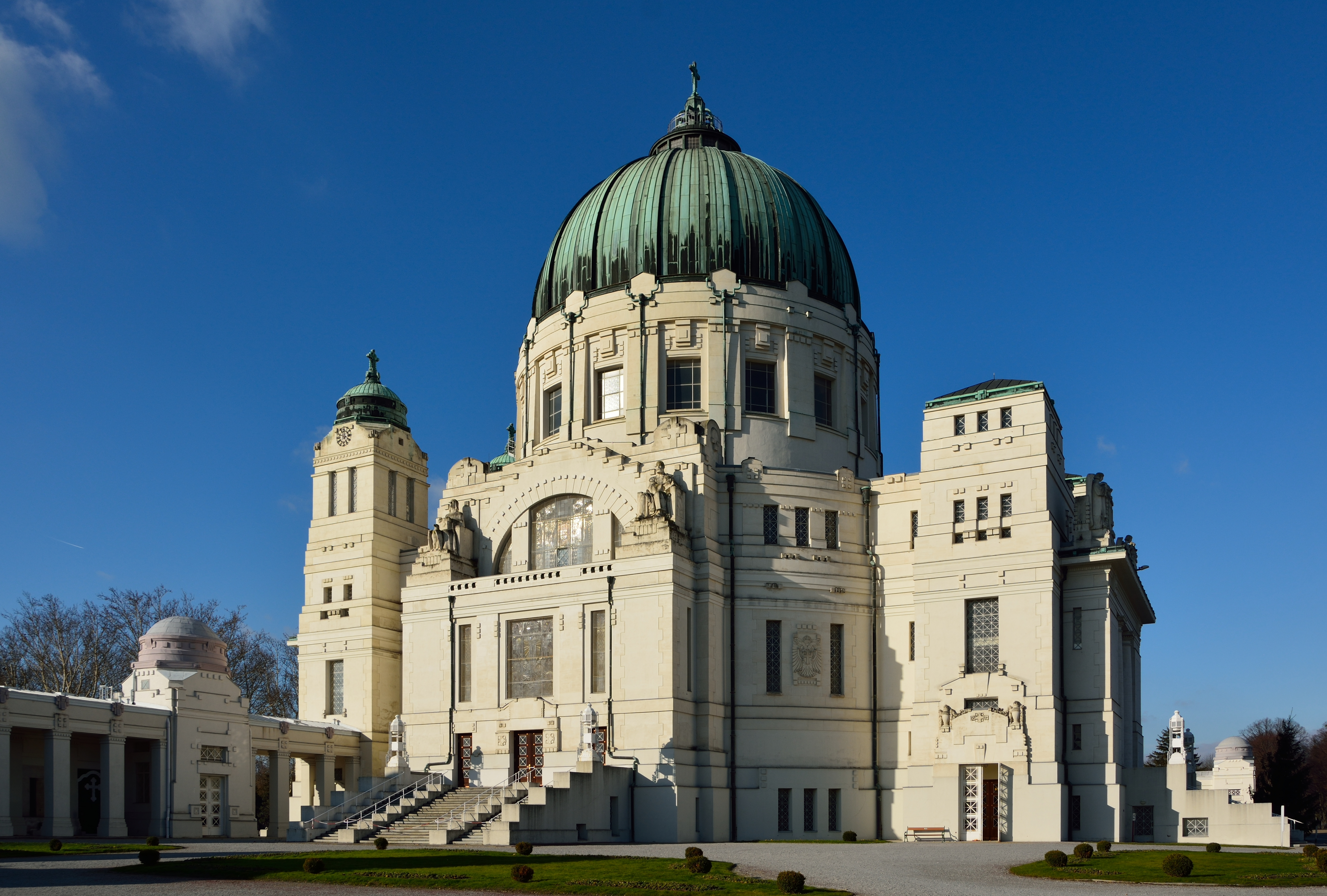 Saint Karl Borromaeus church at Central Cemetery, Vienna, Austria